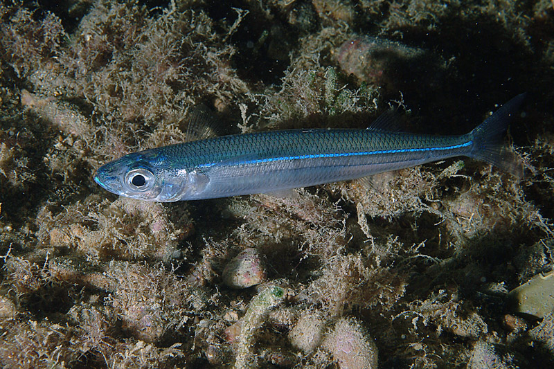 Atherina hepsetus photographed near Tuscany coasts. Photo by Stefano Guerrieri.